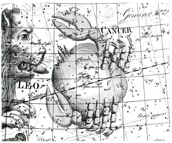 Cancer